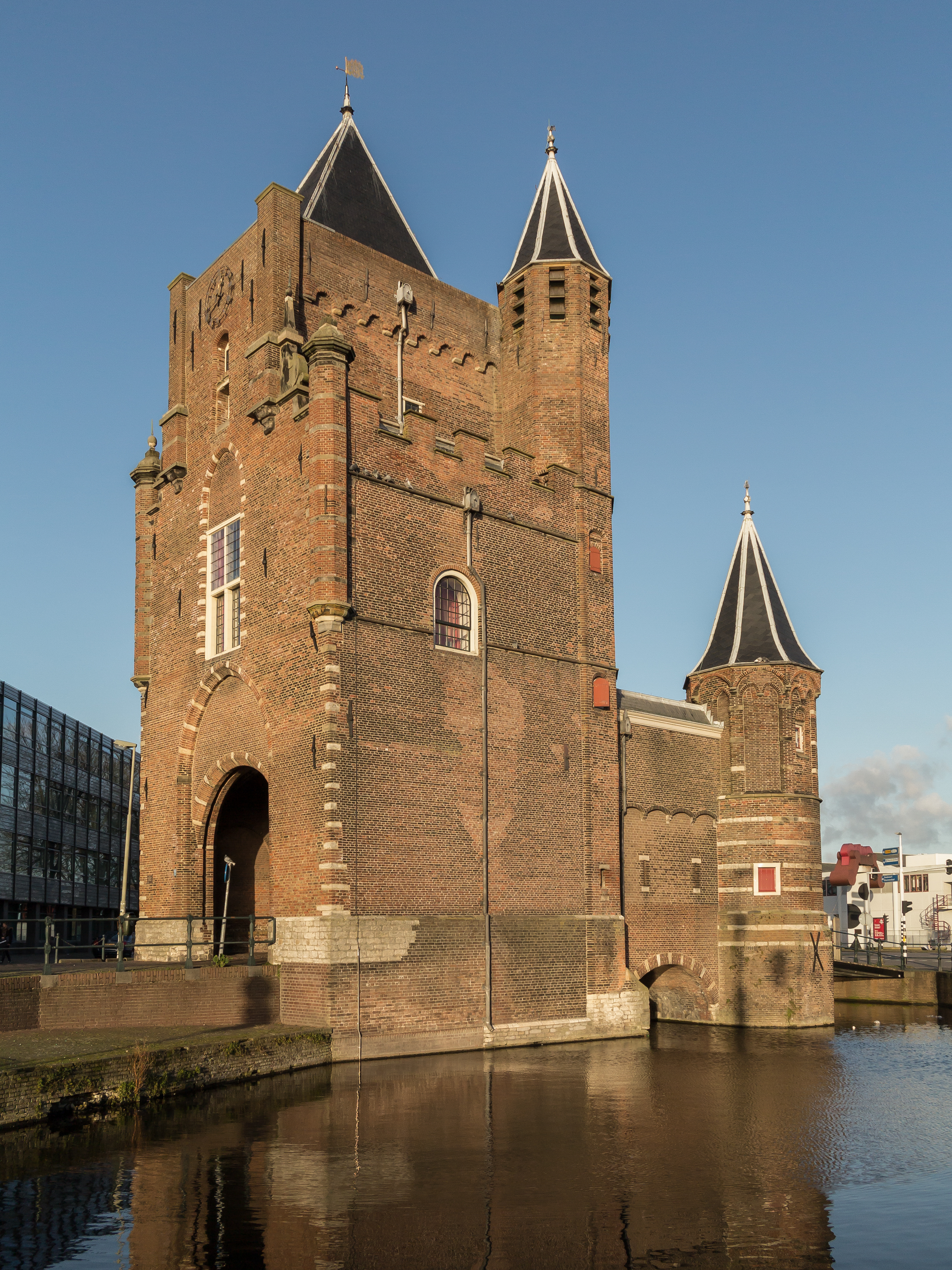 Haarlem, town gate: de Amsterdamse Poort